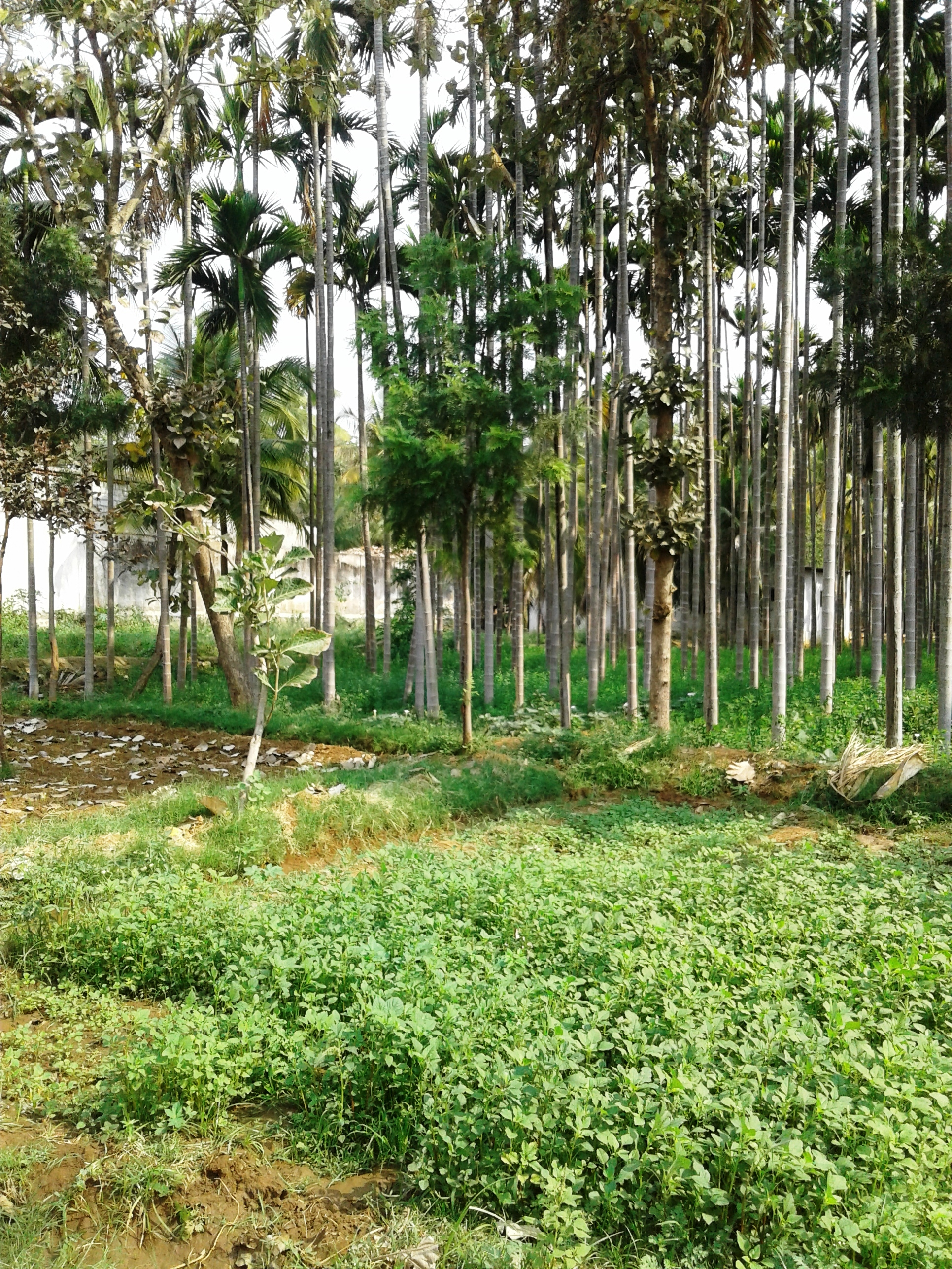 Kanakapura, Ramanagara District, Karnataka state, India.